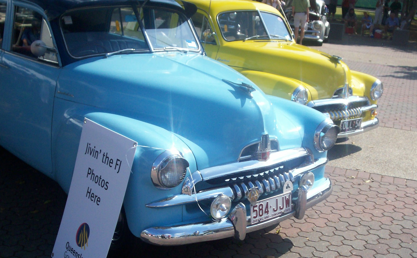 You are free to use this photo for any reason, including commercial reasons, but you MUST include EITHER a link to or, (ONLY if you are not using it on the internet), you must print the URL next to or on the photo. If you do NOT provide this credit, in this way, you will be using the photo ILLEGALLY. If you do use the correct credit, you don't have to contact me for permission - but if you can let me know where you are using it, that would be cool.